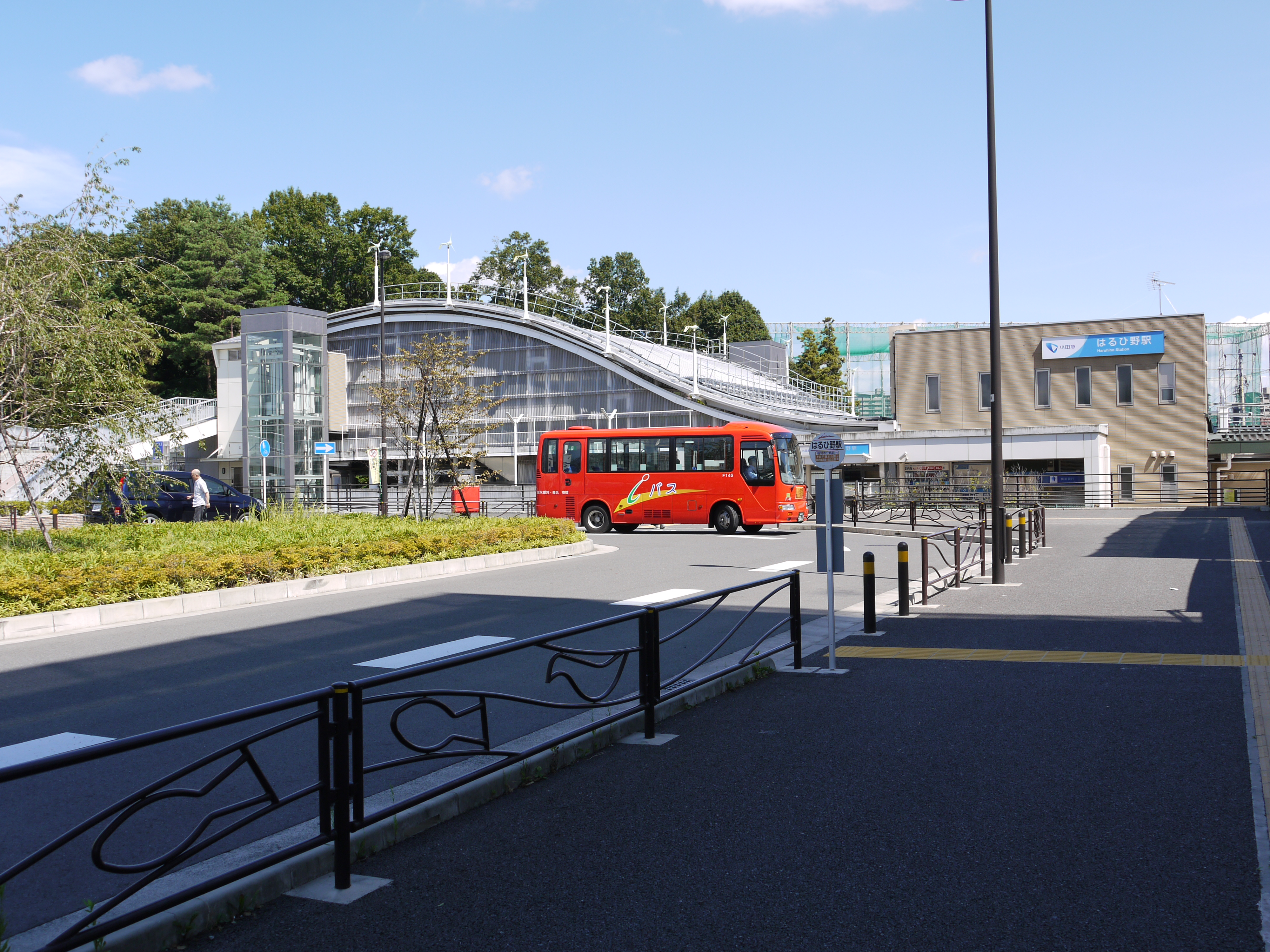 An i bus going into Haruhino Station South